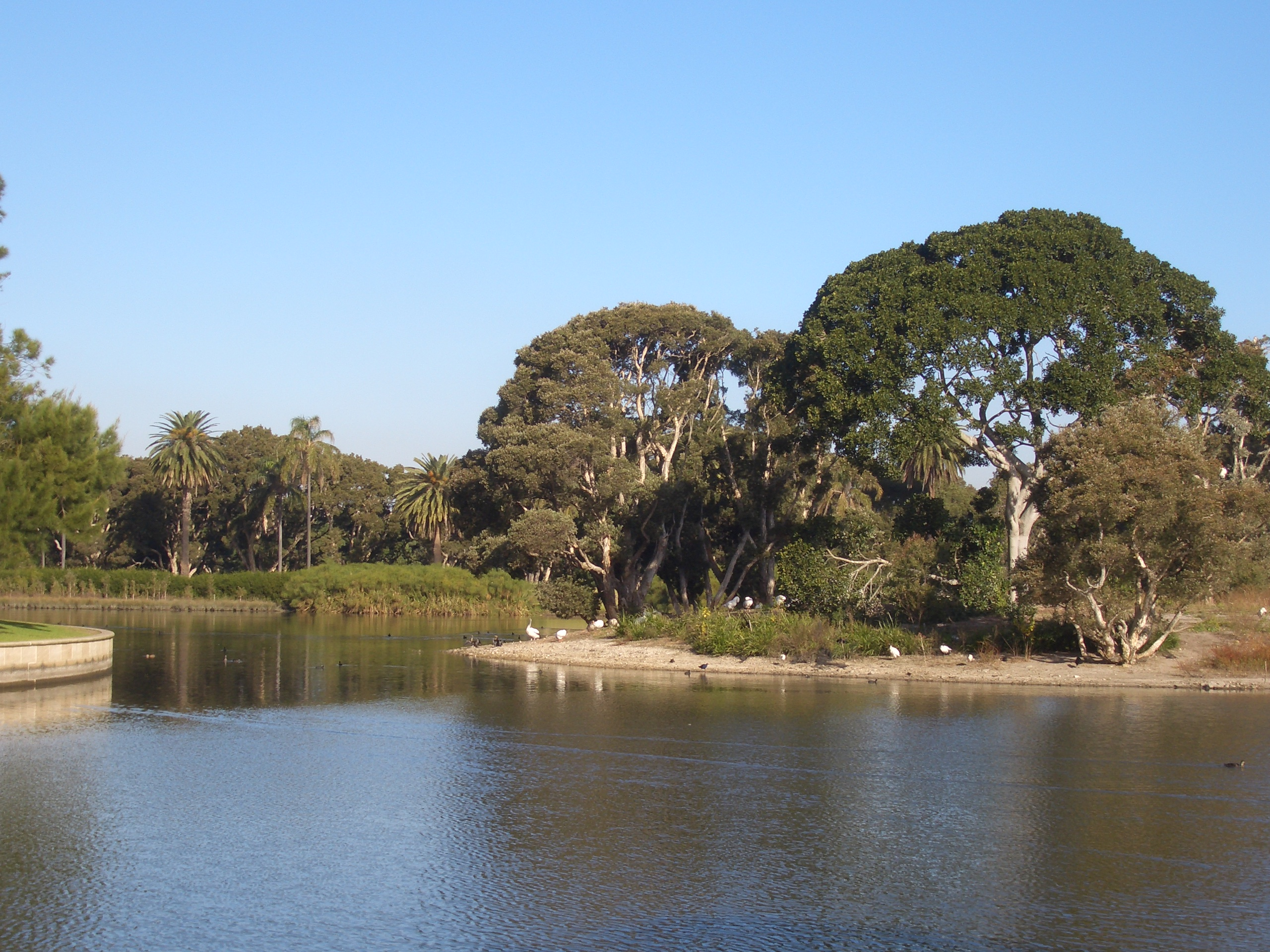 Centennial_Park_Sydney